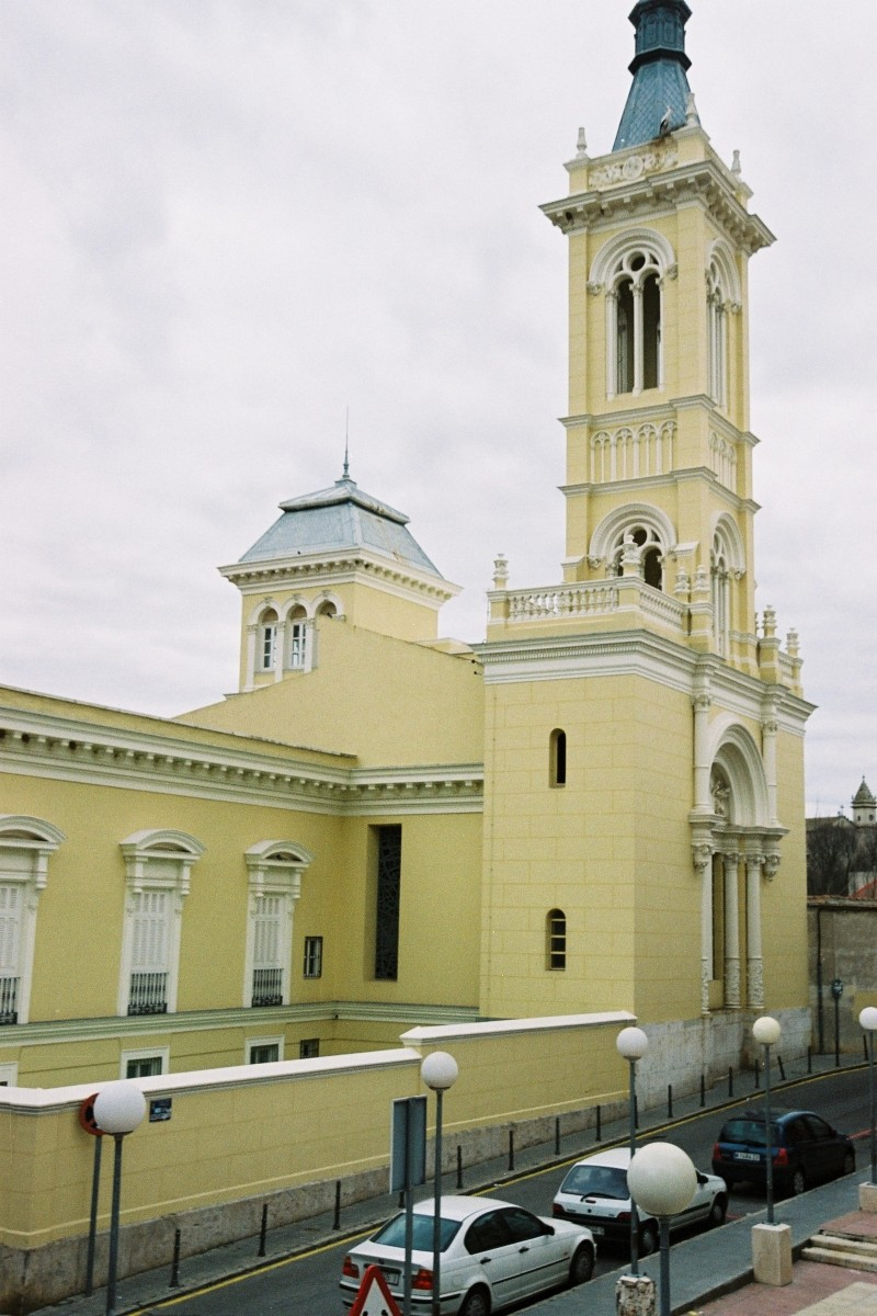 Saint Sebastian Chapel, in the Palace of Viscount of Jorbalán, in Guadalajara, Spain.